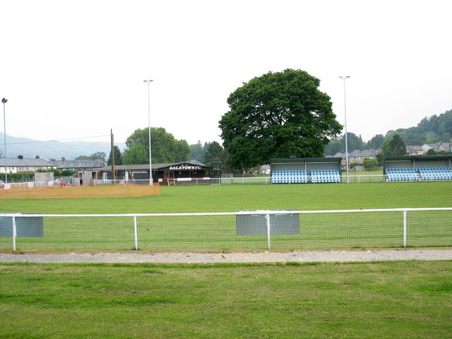 The home of Bala Town Football Club, Castle Street